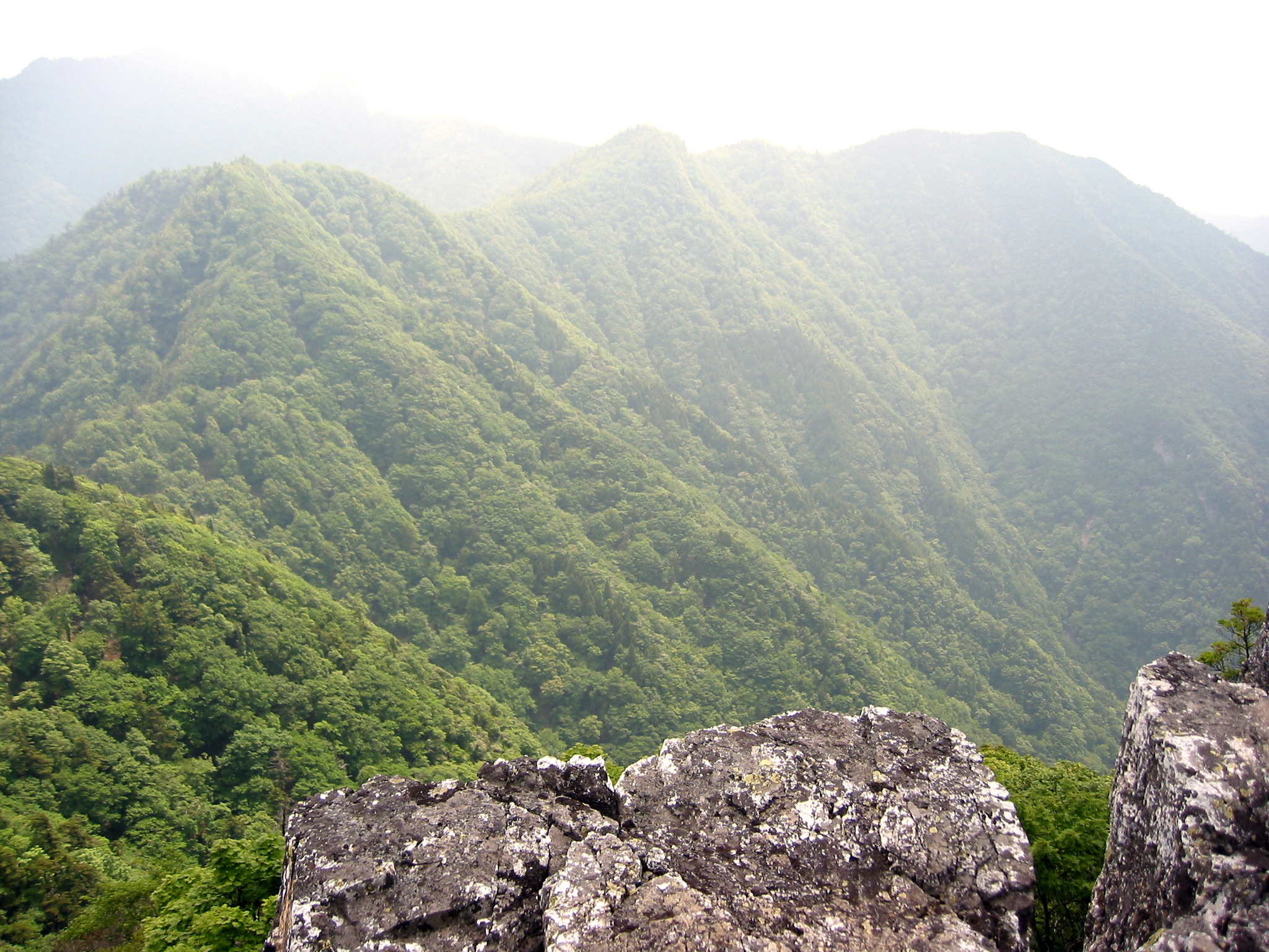 View of Mount Ōmine in Nara Prefecture, Japan